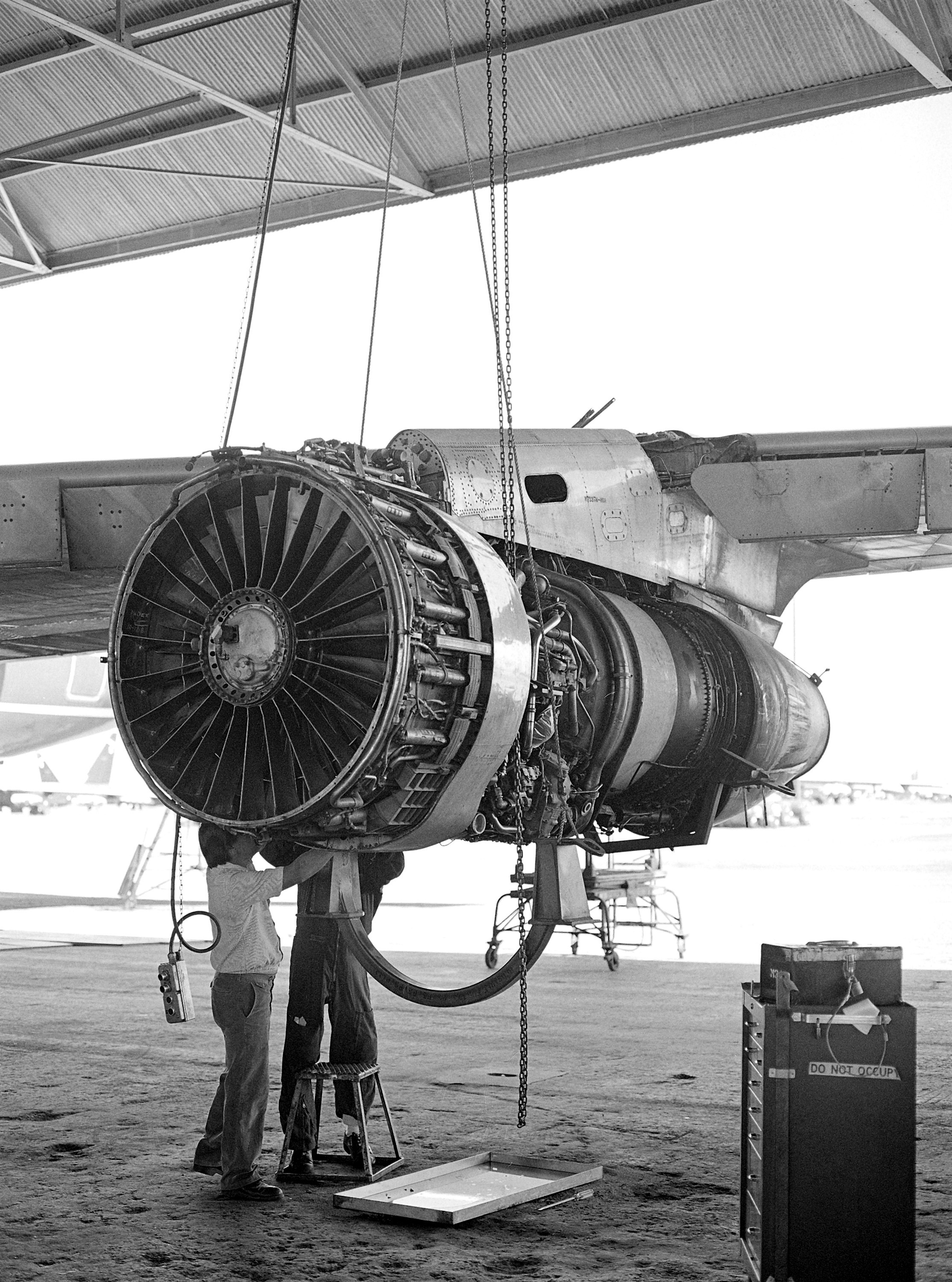 A technician hoists the front engine of a civil Boeing 707 Pratt & Whitney JT3D (military designation TF33) aircraft into position after securing the rear support on 6 December 1984. The Military Aircraft Disposition and Storage Center at Davis-Monthan Air Force Base, Arizona (USA), was reclaiming commercial Boeing 707 aircraft, using engines and spare parts in a re-engineering program for Boeing KC-135A Stratotanker aircraft. The modifications to the KC-135E entailed changing the J57 engine for the TF33-PW-102 engines, improved brakes, avionics upgrades and new horizontal stabilizers. The KC-135E was 14 percent more fuel efficient than the KC-135A and could offload 20 percent more fuel.